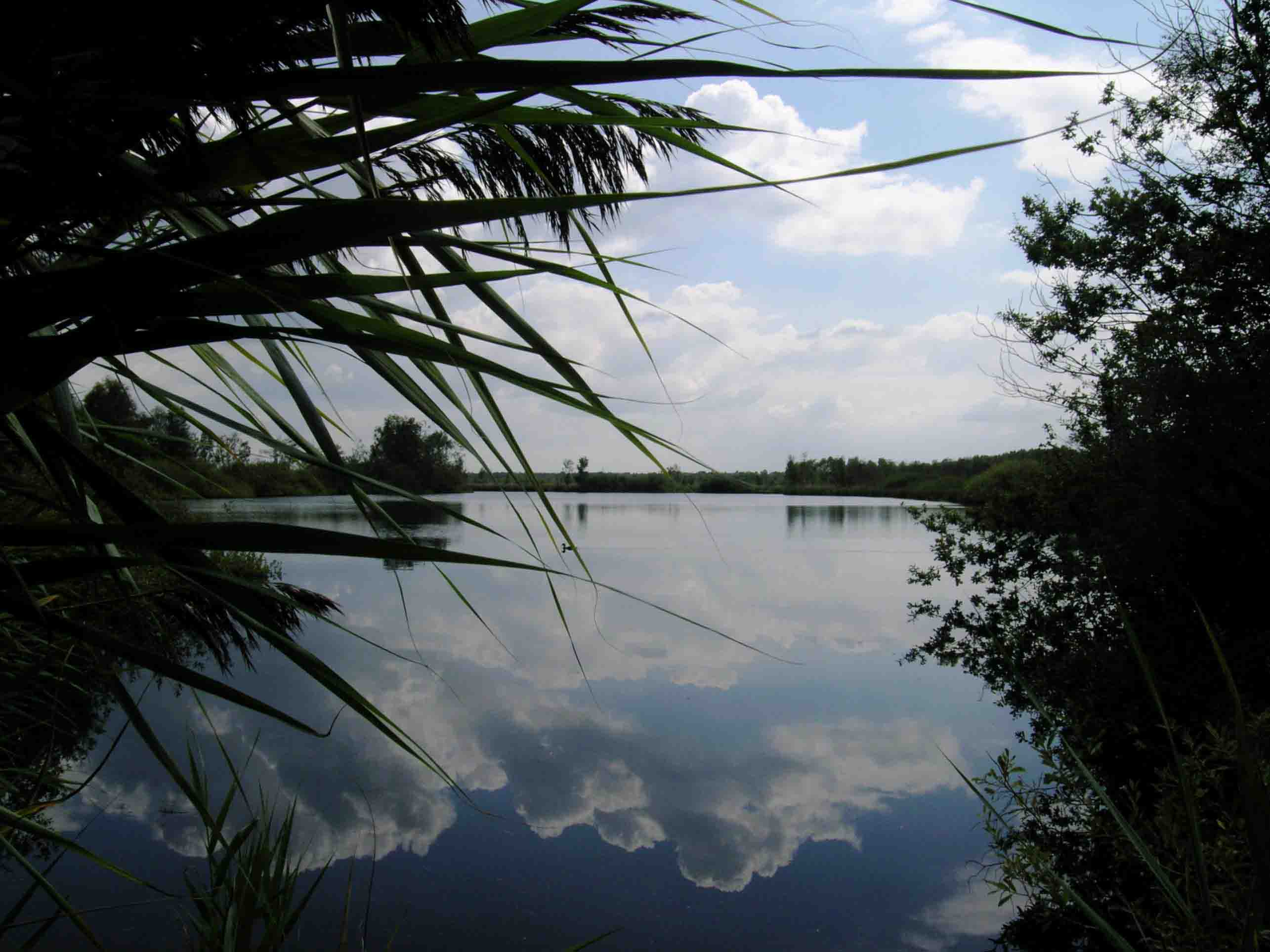 Photograph by Dirk van der Made (User:DirkvdM - for more photos see user:DirkvdM/Photographs). A lake in 'de Peel' in the Netherlands, near Griendtsveen.